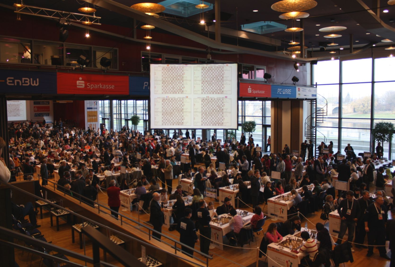 The 38th Chess Olympiad. Dresden 2008, Kongresszentrum.